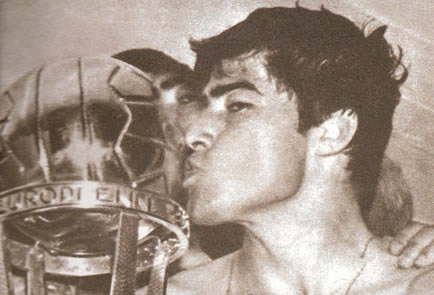 Juan Carrlos Cardenas kissing the Copa Intercontinental trophy in 1967